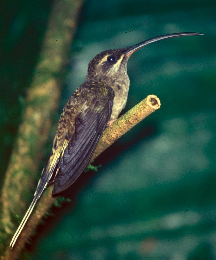 Baron's Hermit (Phaethornis longirostris baroni) from Ecuador